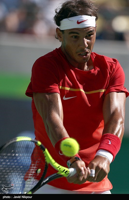 Tennis at the 2016 Summer Olympics